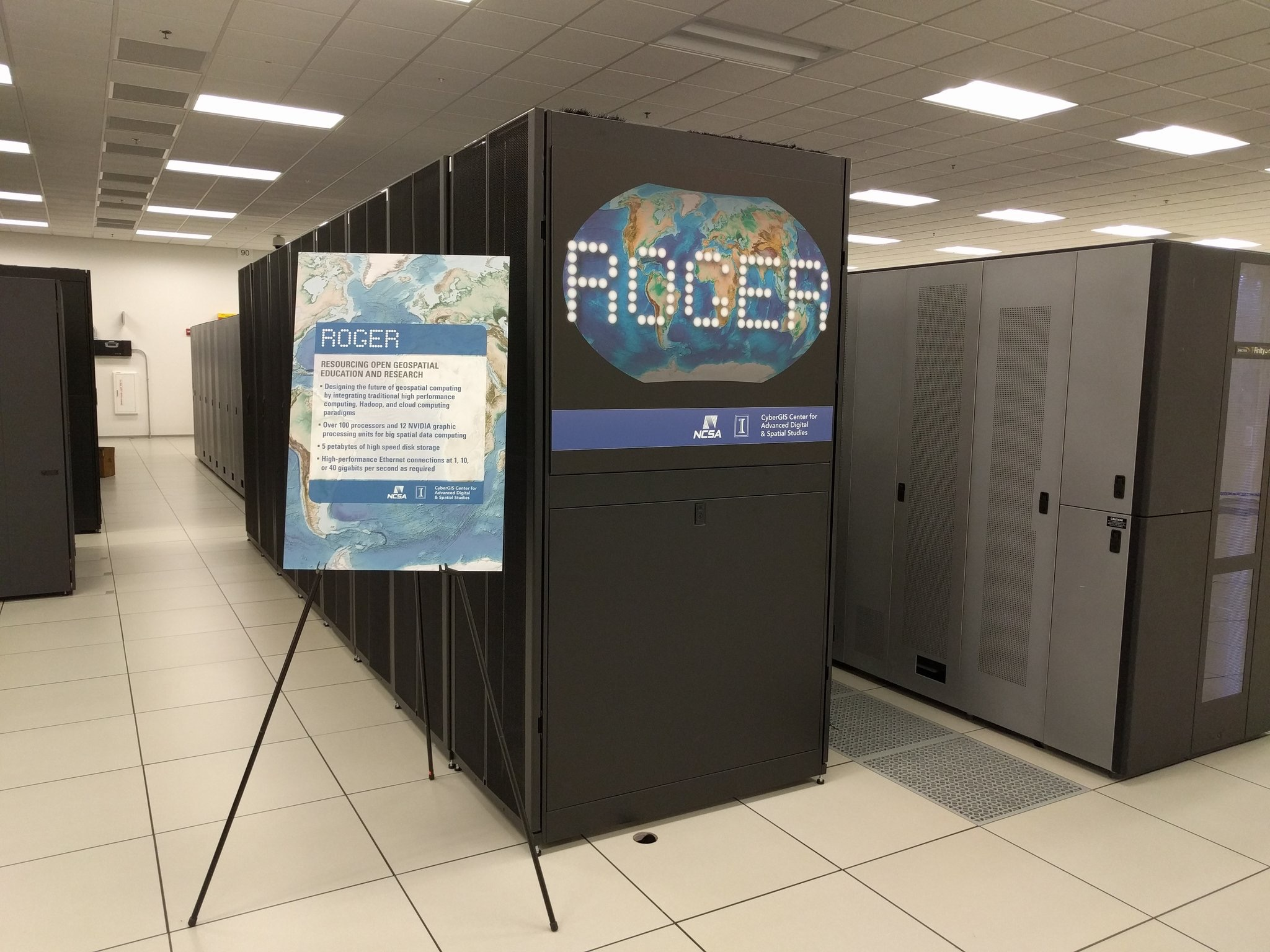 The ROGER Supercomputer. A CyberGIS resource which is part of XSEDE resources.